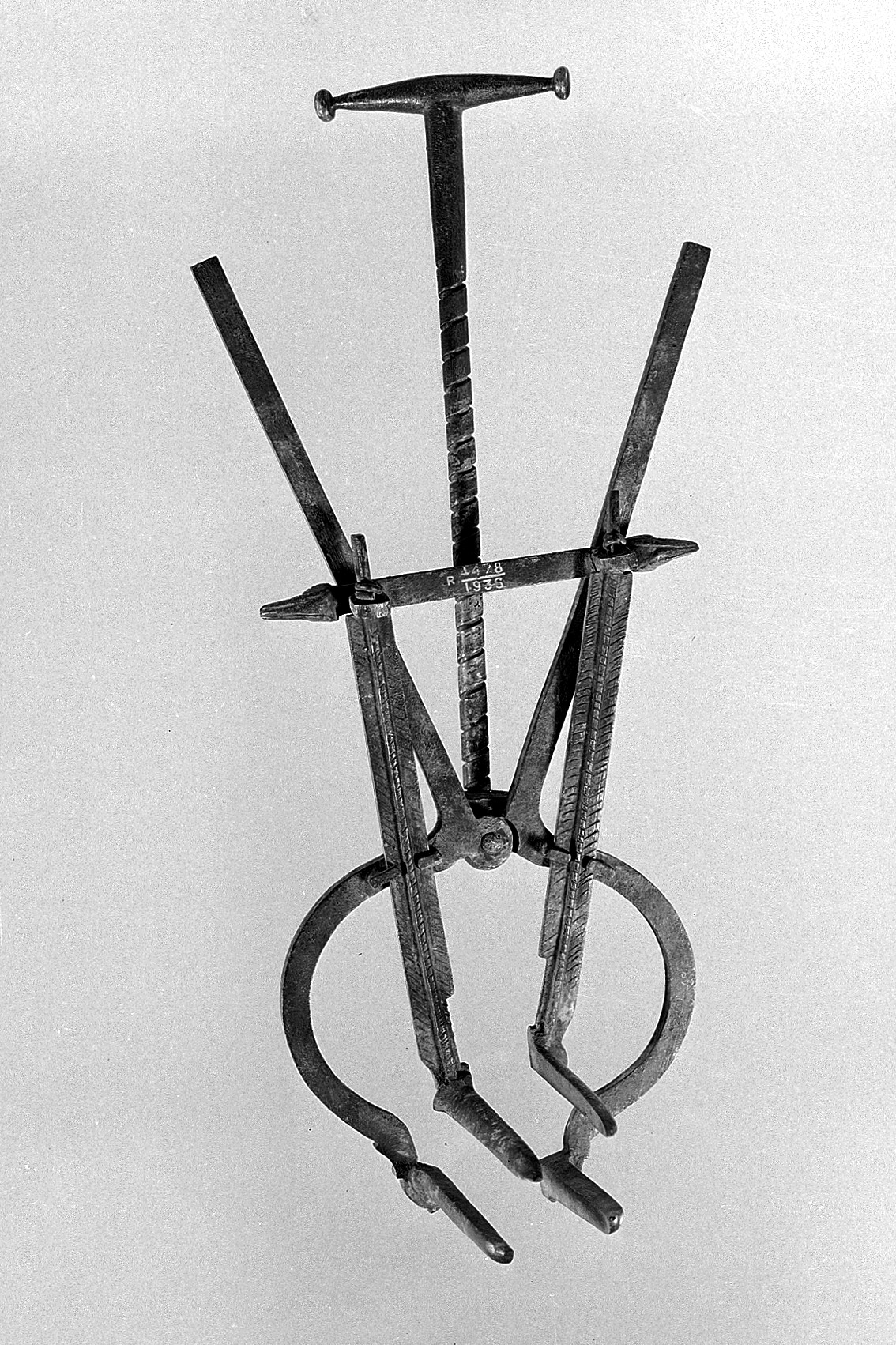 Specula, facsimiles of those found in Pompeii Wellcome Images Keywords: ancient surgical instruments